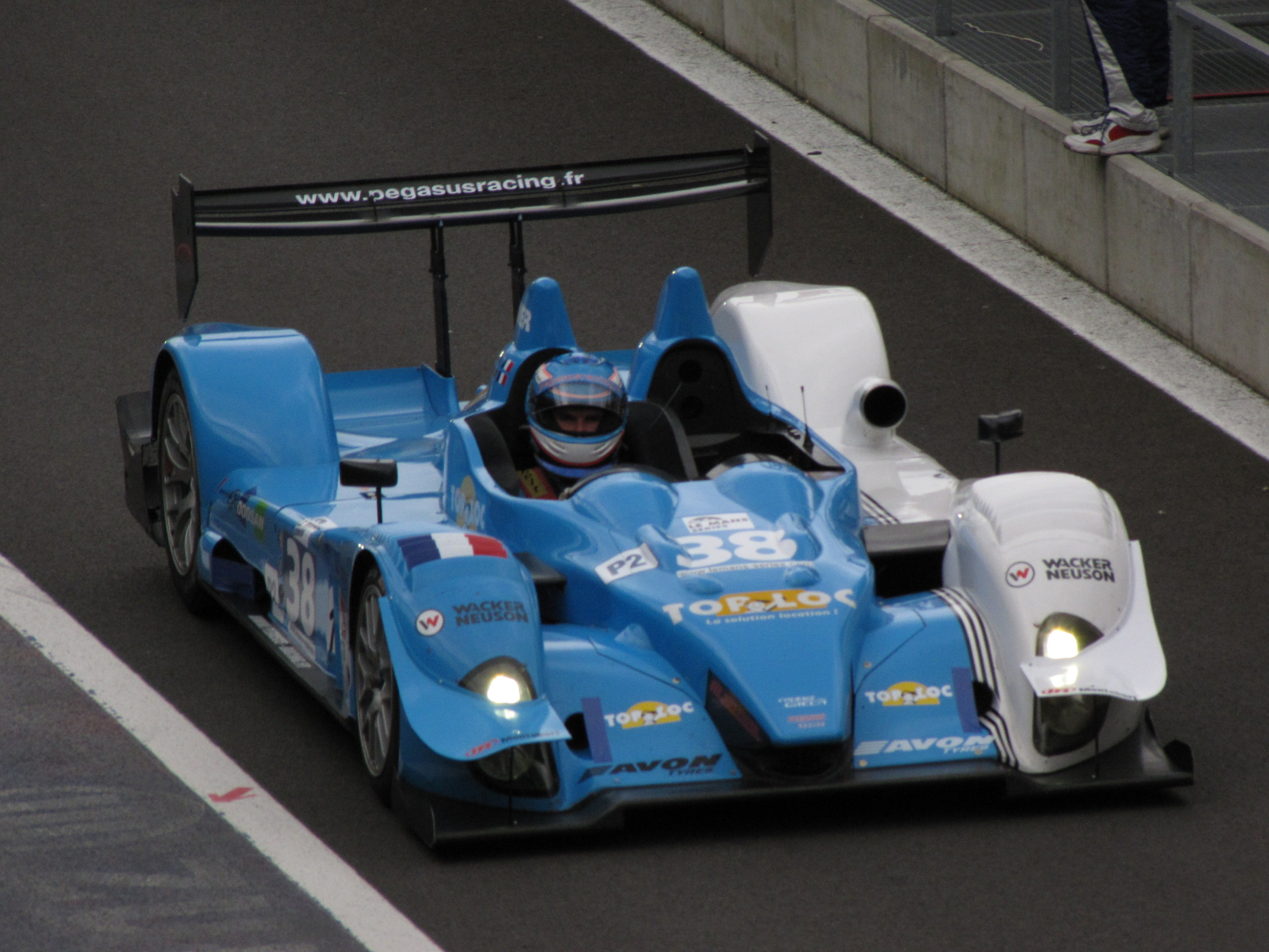 Julien Schell driving a Courage LC75 in first practice of the 1000 km of Spa 2009.